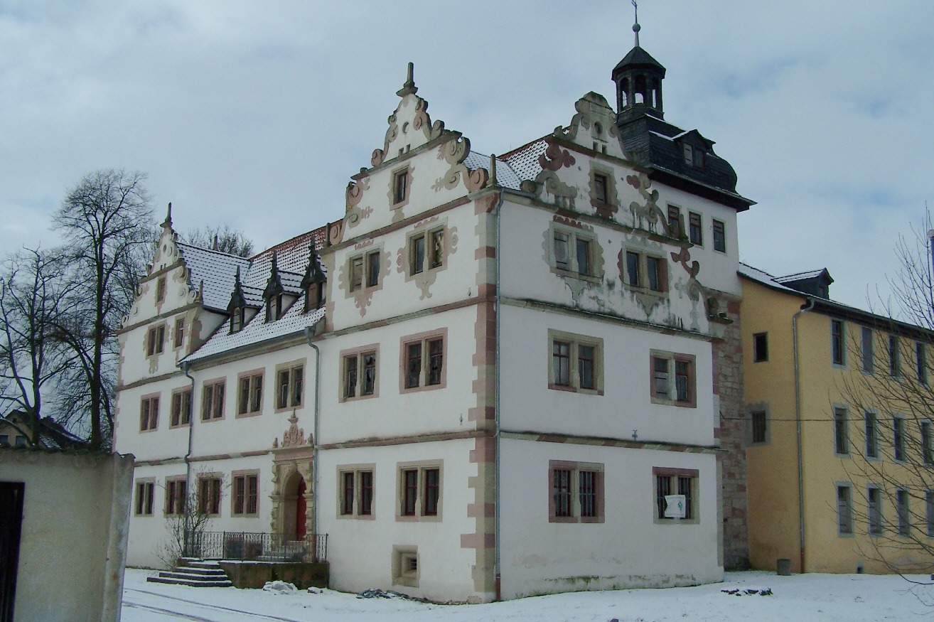 Wildprechtroda castle.